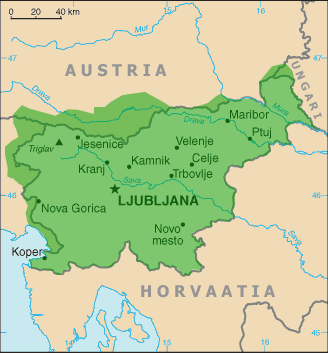 Map in Estonian showing the distribution of the Slovenian language.